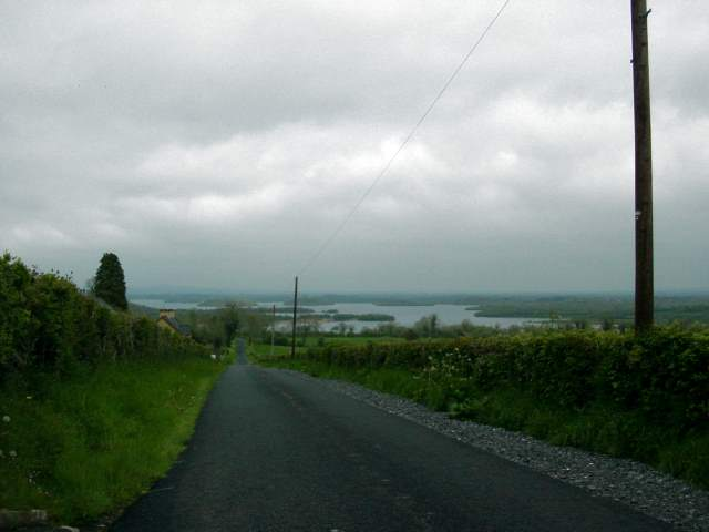 Minor road up Knockninny Hill At the bottom of the hill you see parts of the Upper Lough Erne.